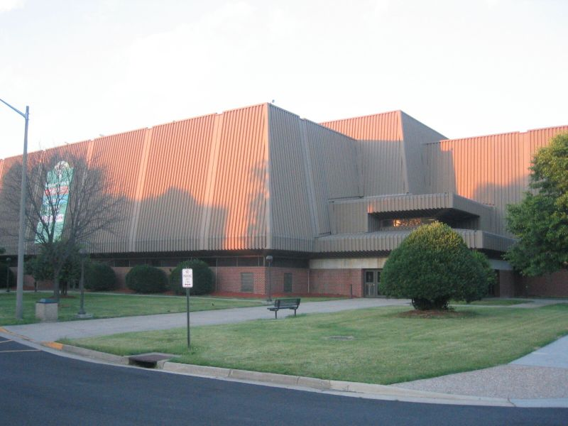 Joseph G. Echols Hall - Basketball Arena - Norfolk State University, Norfolk, Virginia, USA